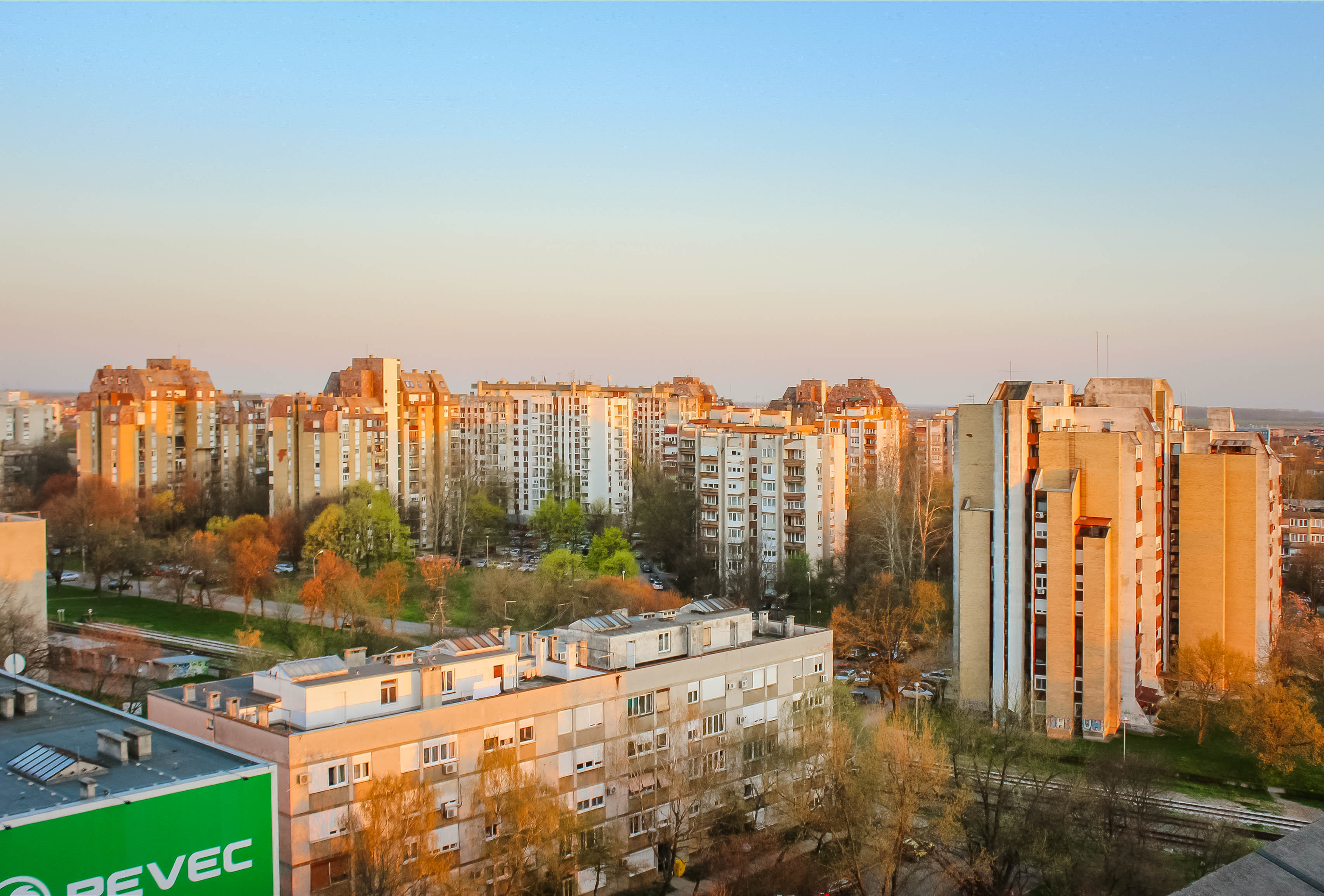 neighborhood